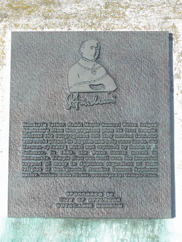 Commemorative plaque outside Temple Zion, Appleton, Wisconsin, USA, 13 May 2015.jpg